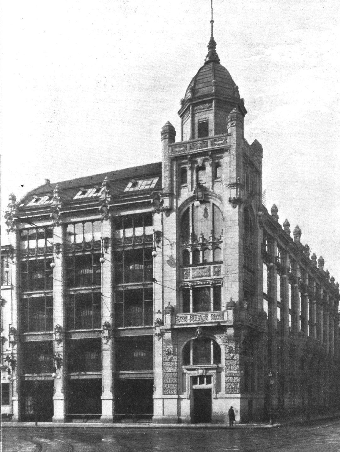 Department store Nathan Israel in Berlin-Mitte, corner of Spandauer Straße and Königstraße (on the right, now Rathausstraße).